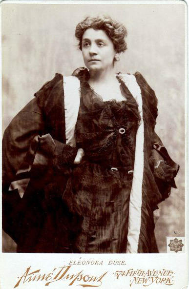 Eleonora Duse as Marguerite Gautier in The Lady of the Camellias; late 19th century